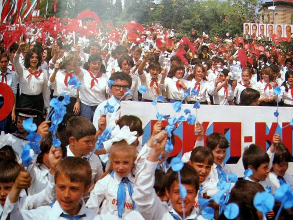 source: Spomeni za narodnata republika